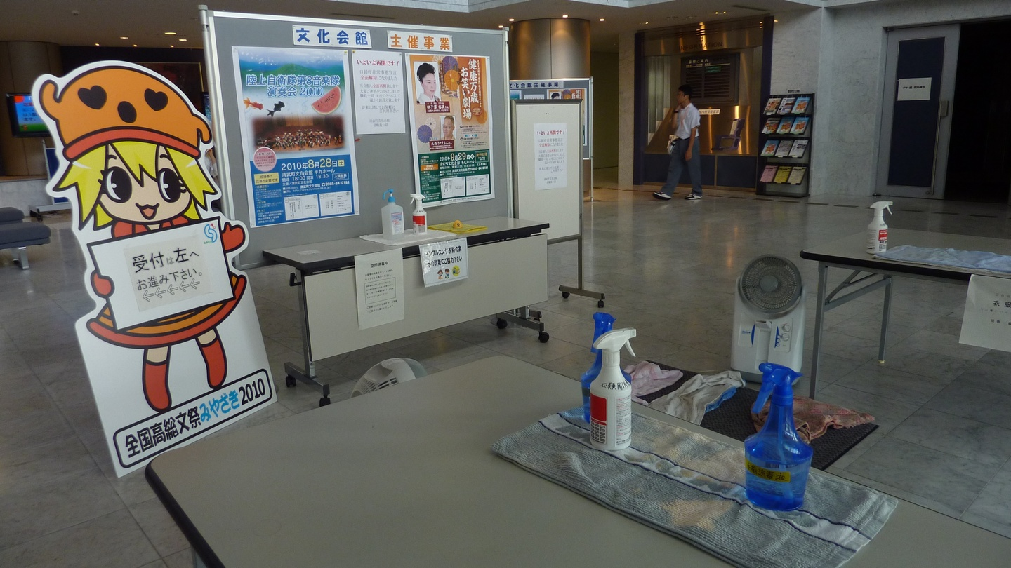 Kiyotake Cultural Arts Center Entrance (Miyazaki City, Japan)